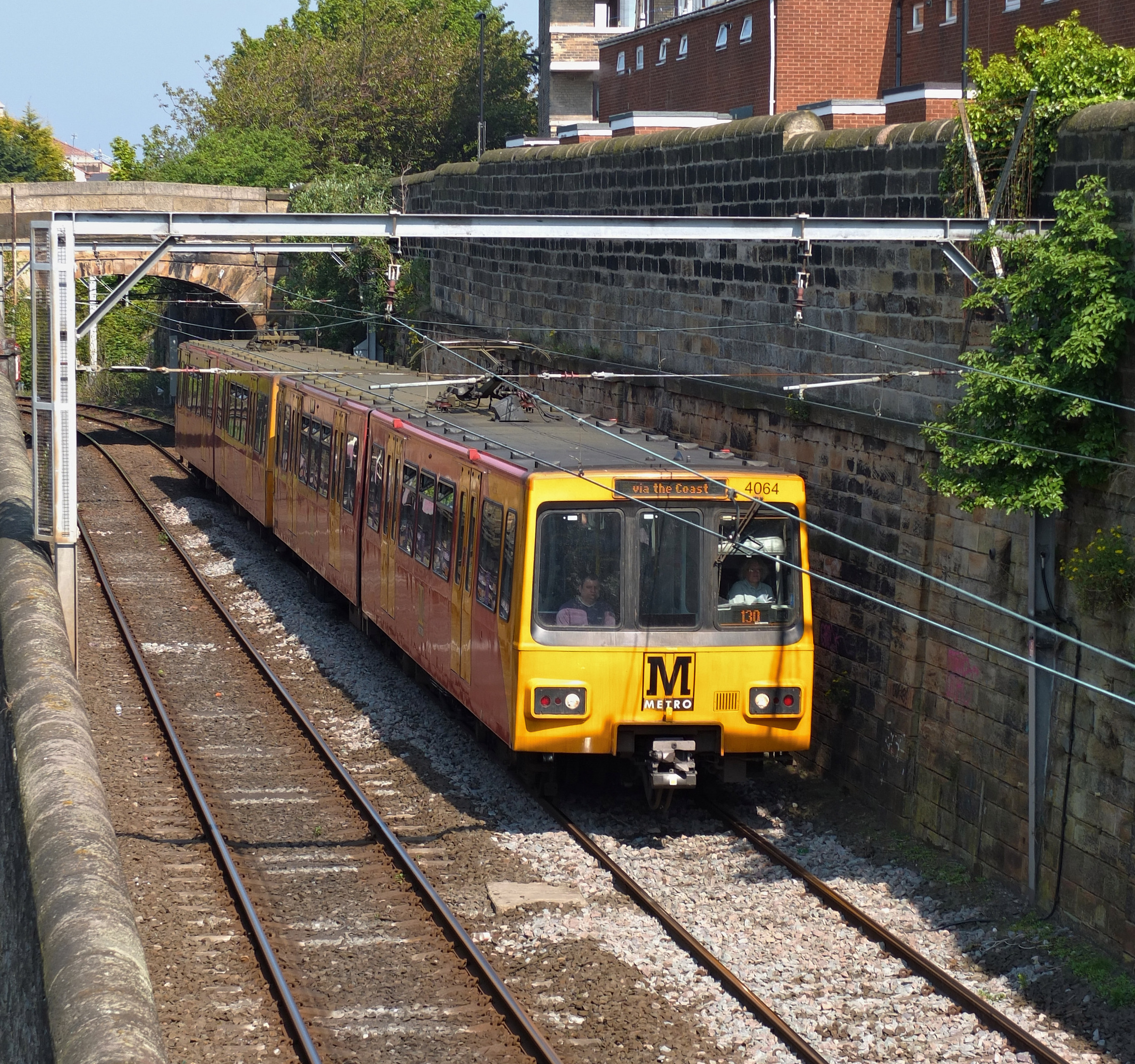 4064 , Tanners Bank , Tynemouth